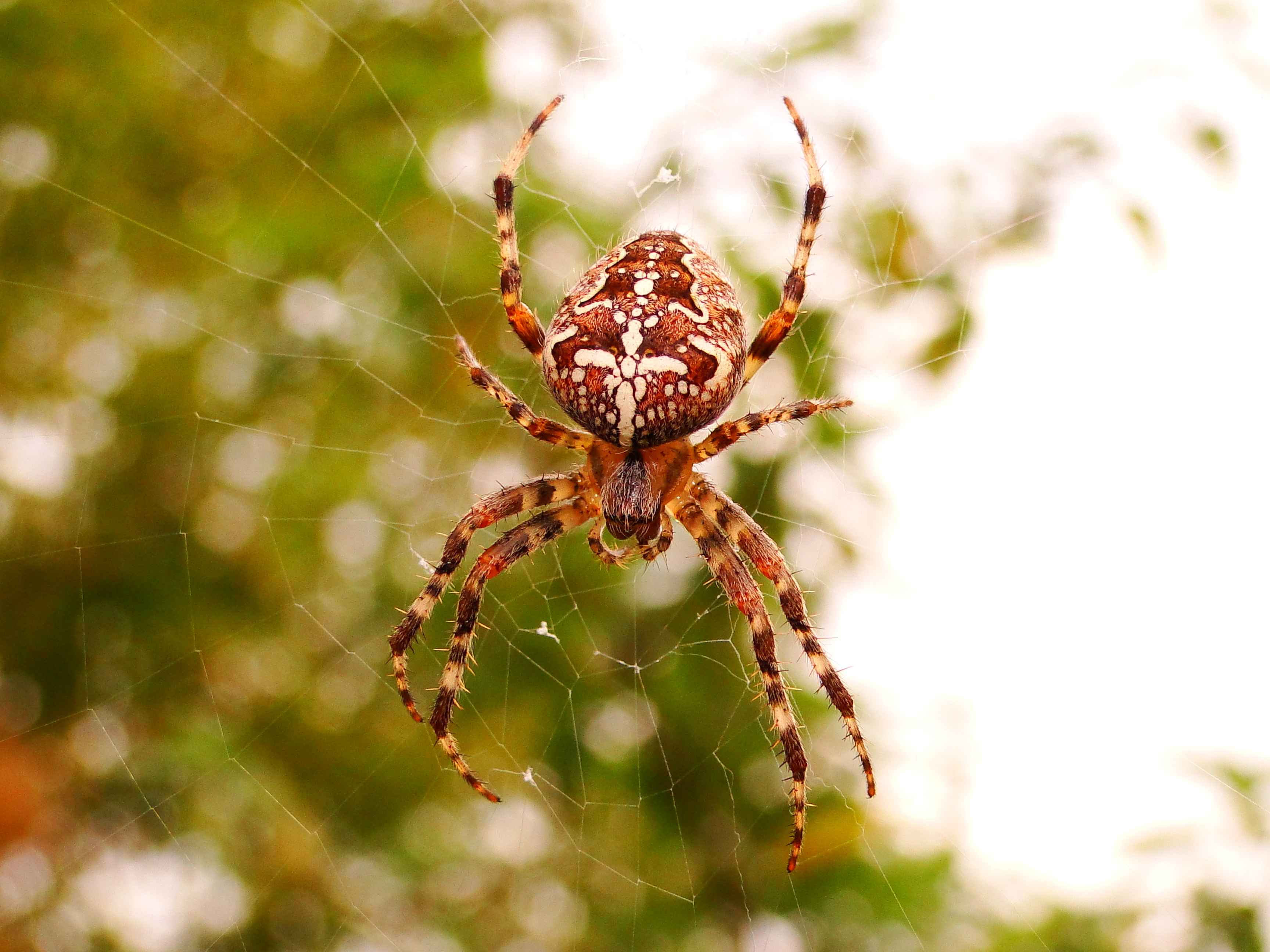 Unidentified spider